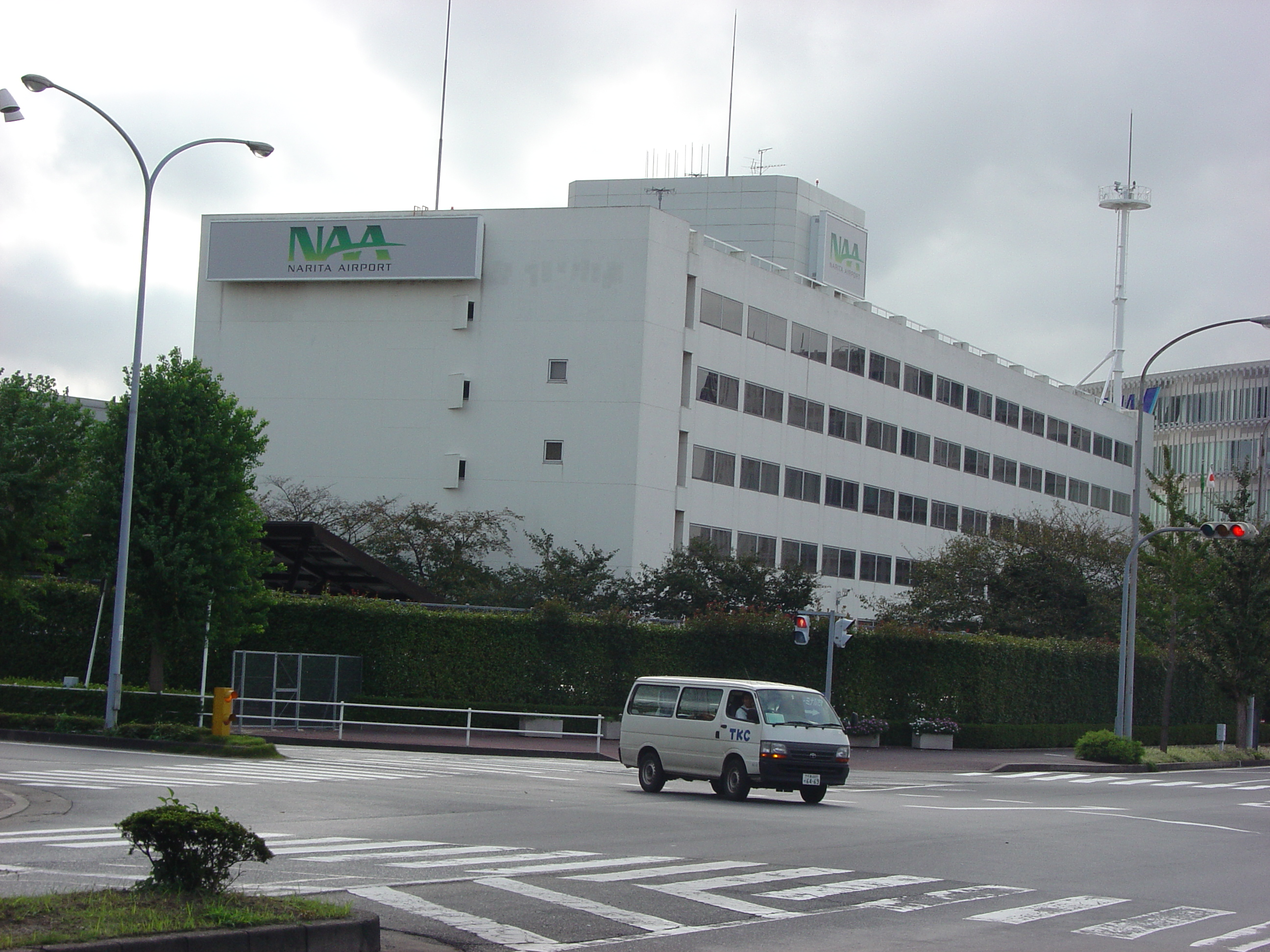 Narita Airport Authority Main Building